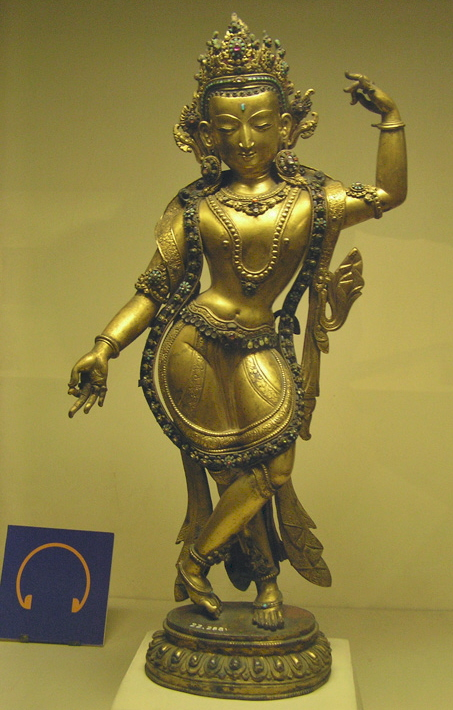 A dancing Krishna Statue from the Nepal-Tibet section.Nepal, 18the Century AD. Prince Of Wales Museum